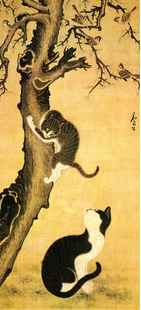 The picture titled "Myojakdo (Painting of Cats and Sparrows)" is painted by Byeon Sang-byeok.